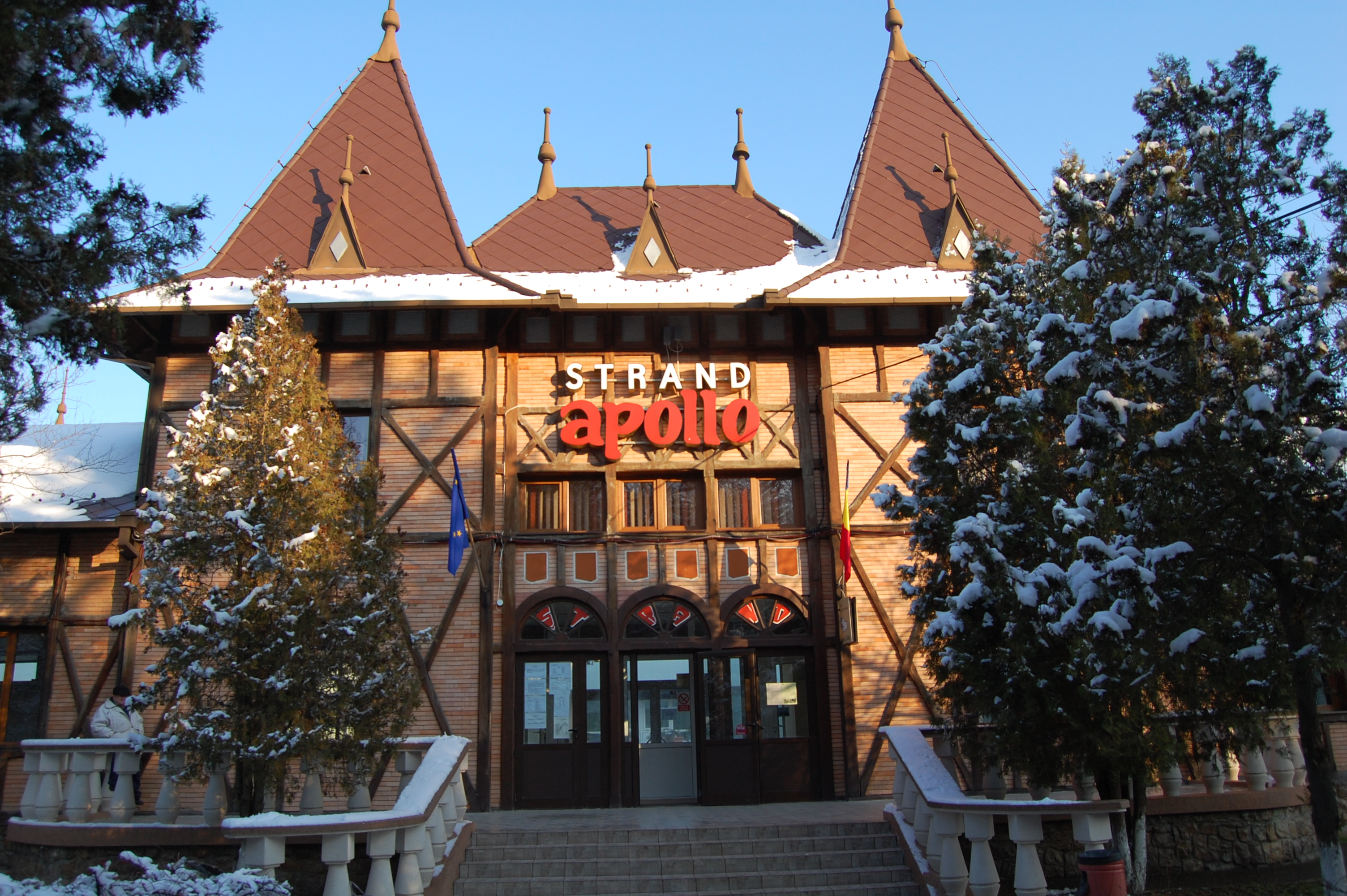 "Apollo" baths - Baile Felix, Romania